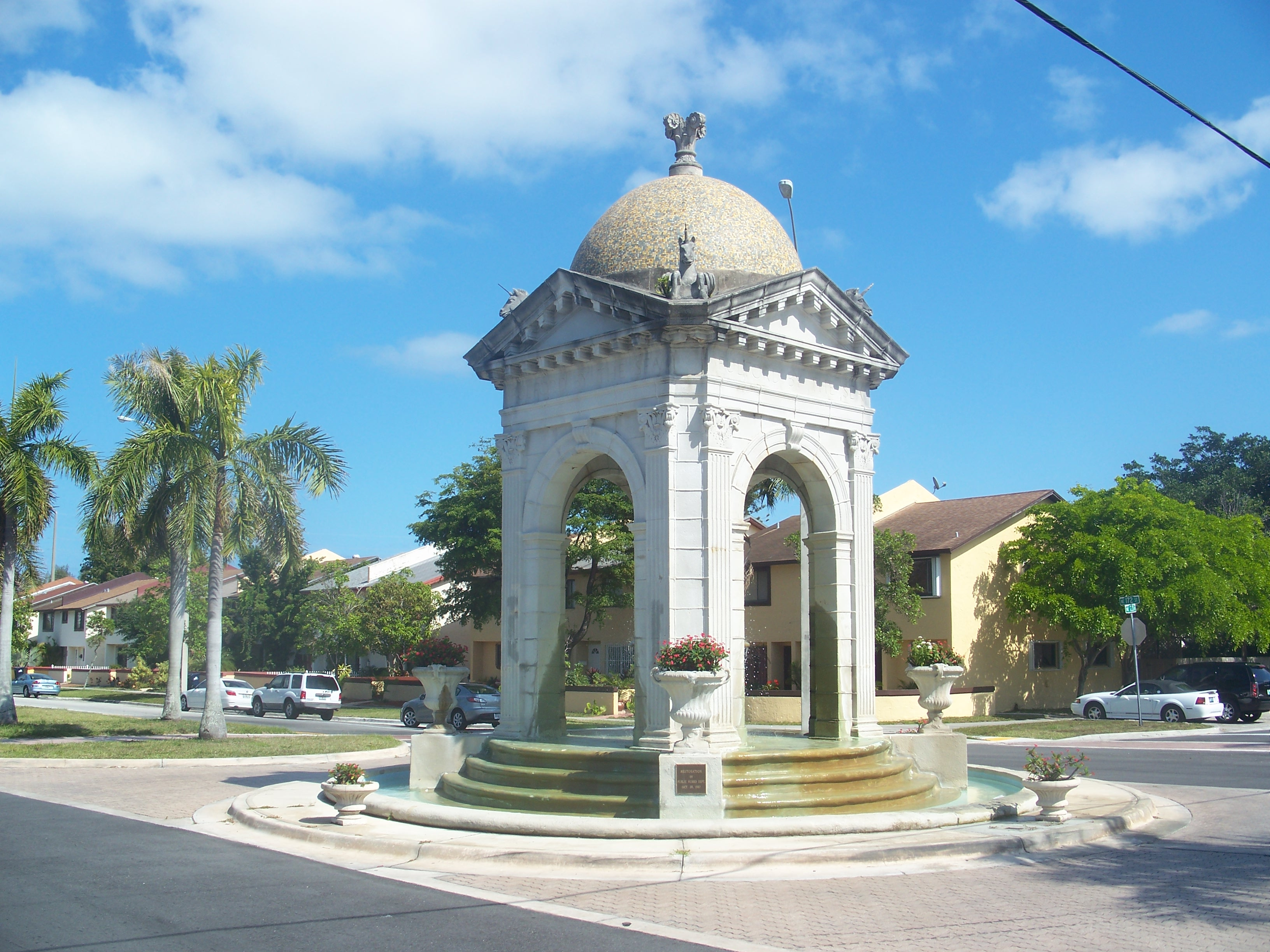 North Miami Beach, Florida: Fulford by the Sea Entrance